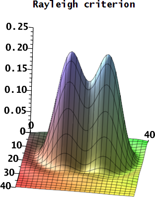 Rayleigh criterion plot